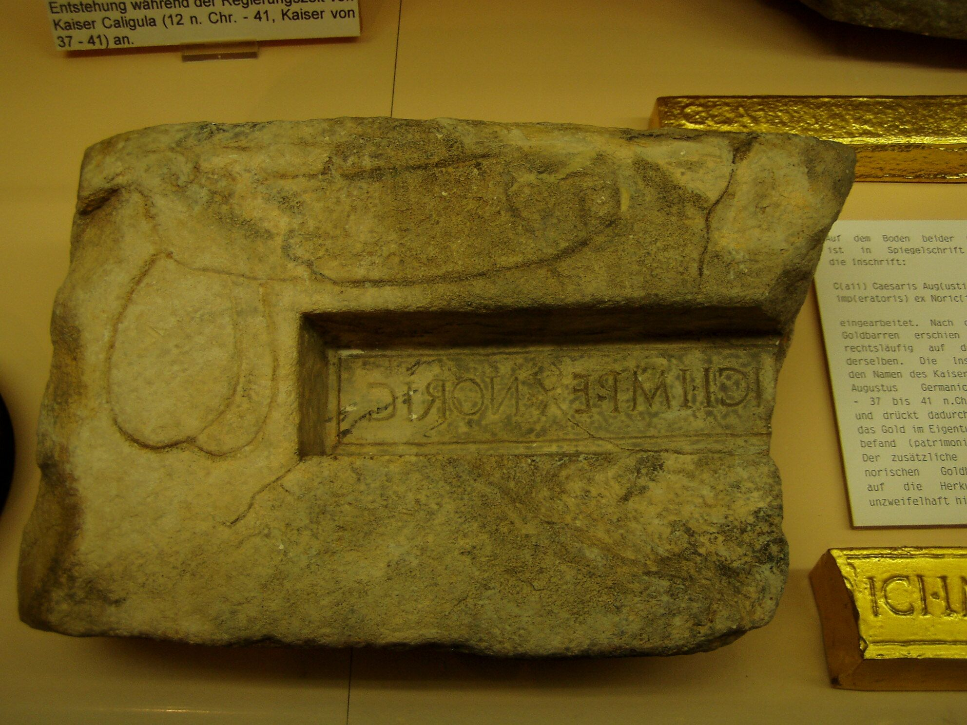 Stadt am Magdalensberg/City on the Magdalensberg, form for gold barrs